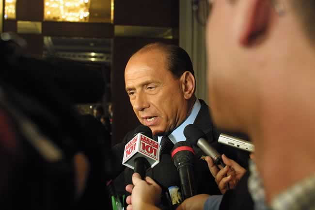 EPP Congress Berlin 2001